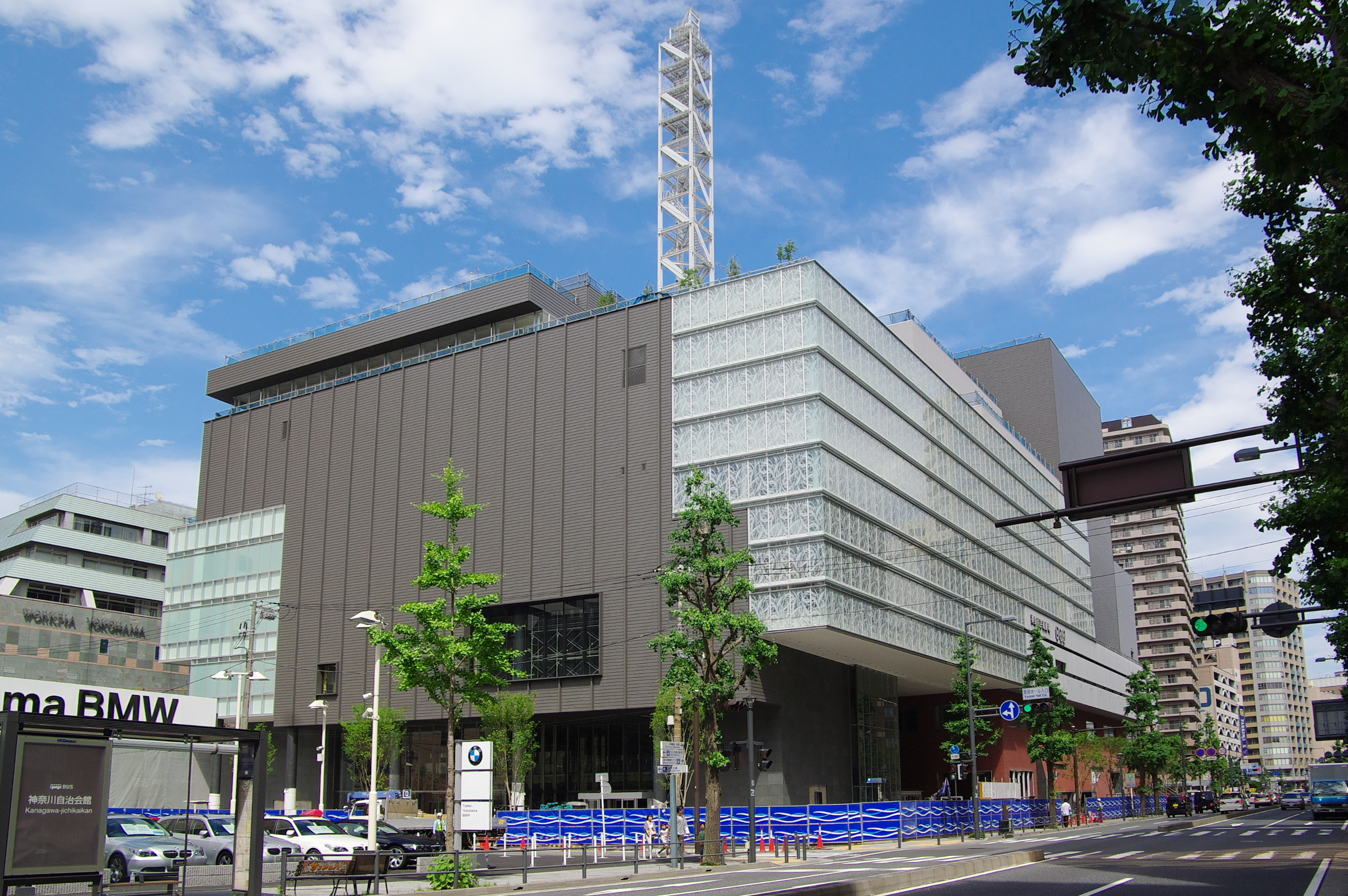 Photograph of the building site of Kanagawa Arts Theatre and NHK Yokohama Broadcasting Station Building Complex in Yamashitacho, Naka-ku, Yokohama, Kanagawa Prefecture, Japan.